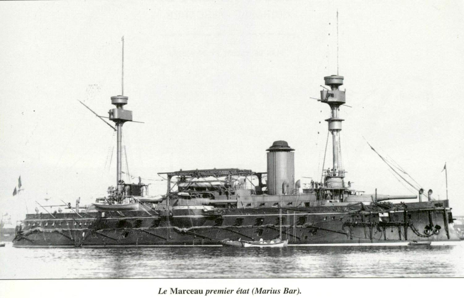 French battleship Marceau